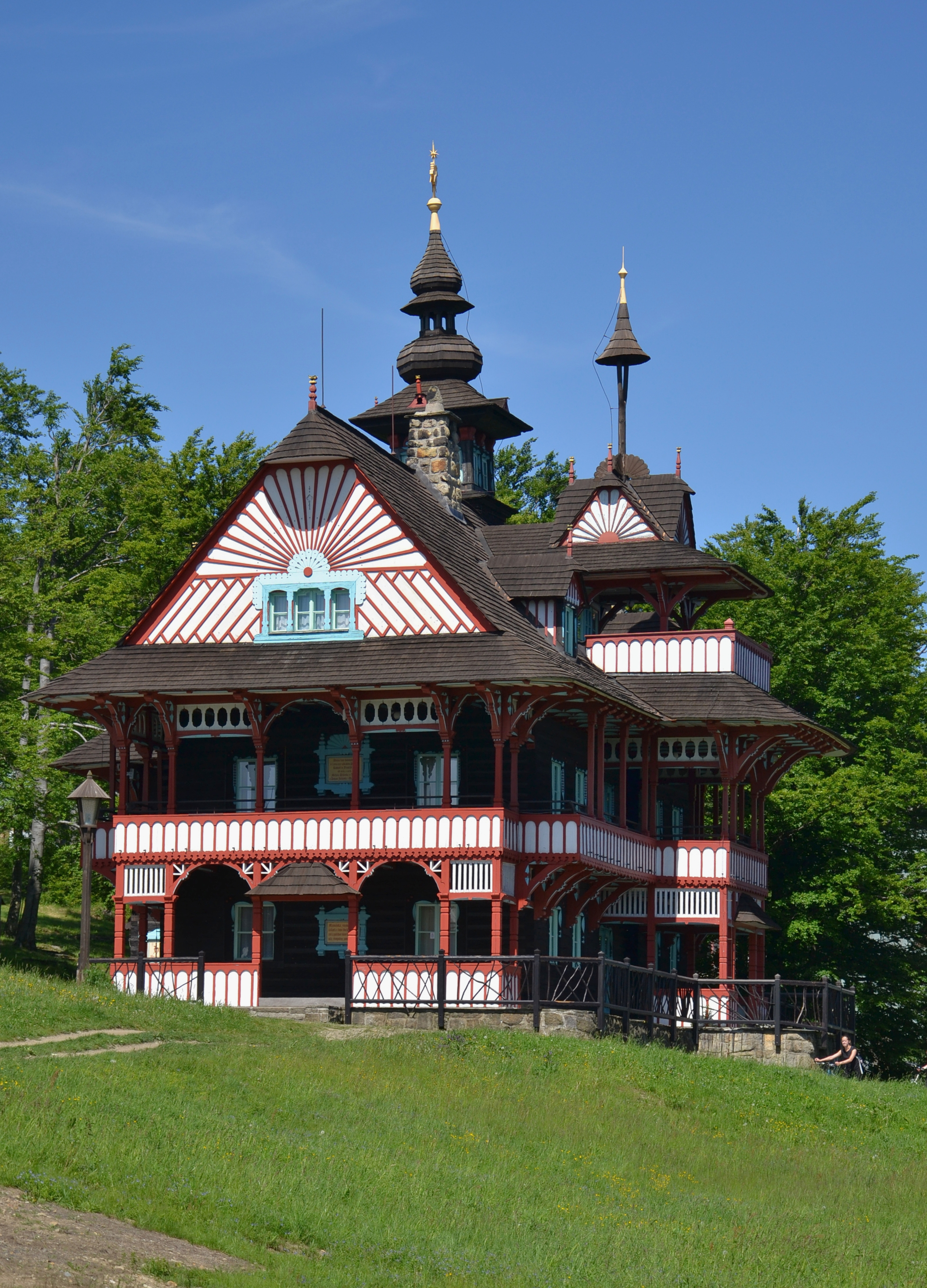 Old house "Maměnka" on Pustevny, Moravian-Silesian Beskids, Czech Republic